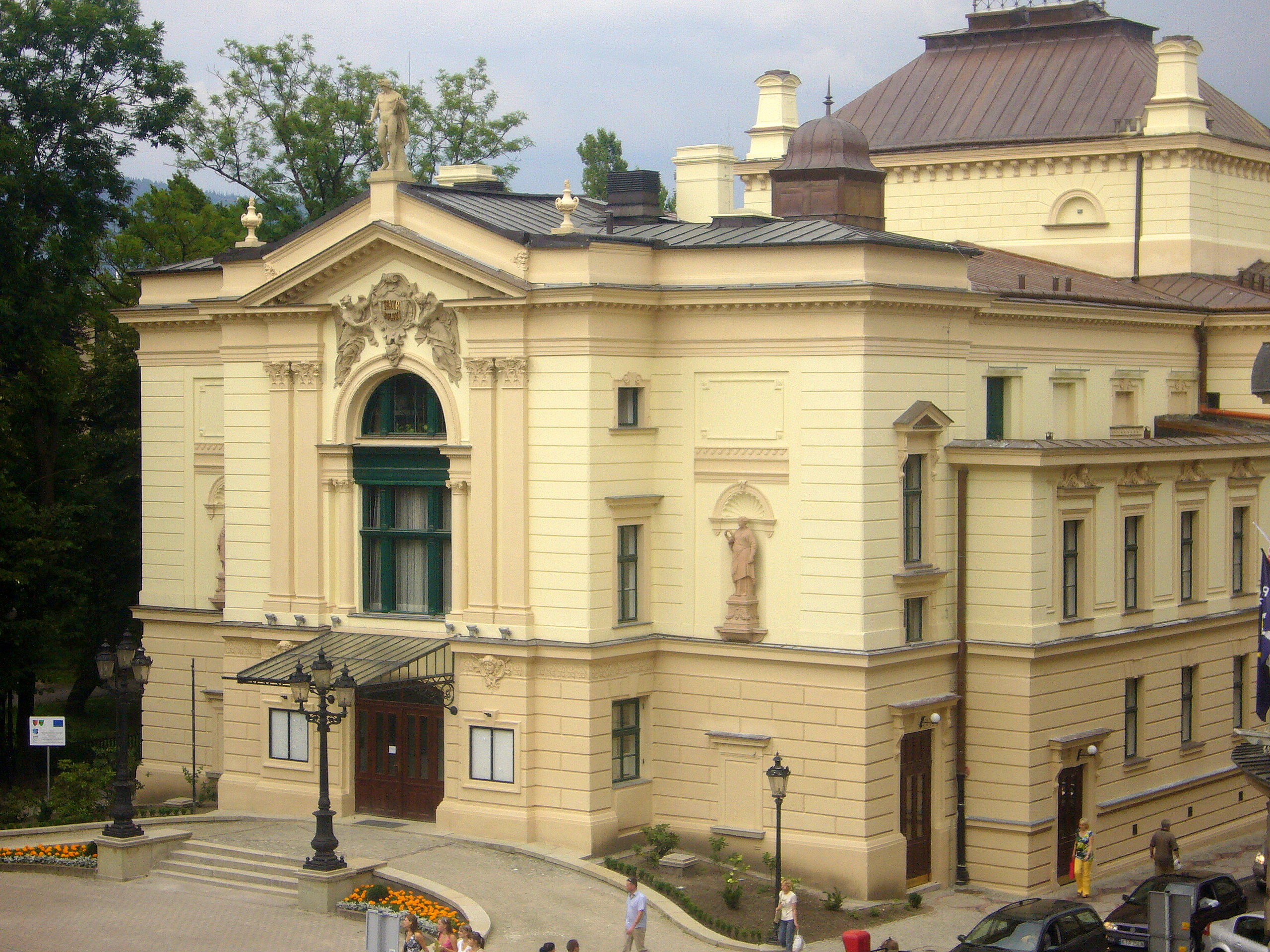 Polish Theater in Bielsko-Biała.